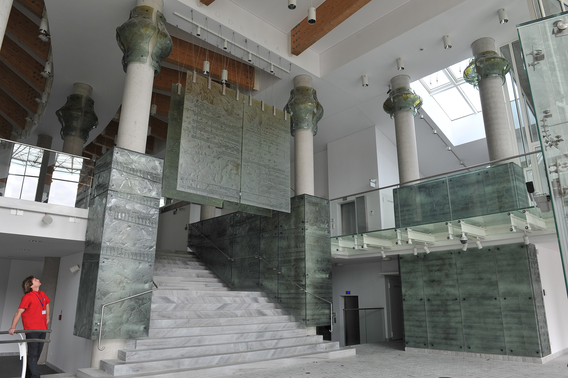 The musical scores of Krzysztof Penderecki, Jerzy Maksymiuk, Stanisław Moniuszko and W. A. Mozart have been pressed into the thick architectural glass art by Tomasz Urbanowicz (ARCHIGLASS) at the Podlasie Opera and Philharmonic in Białystok.